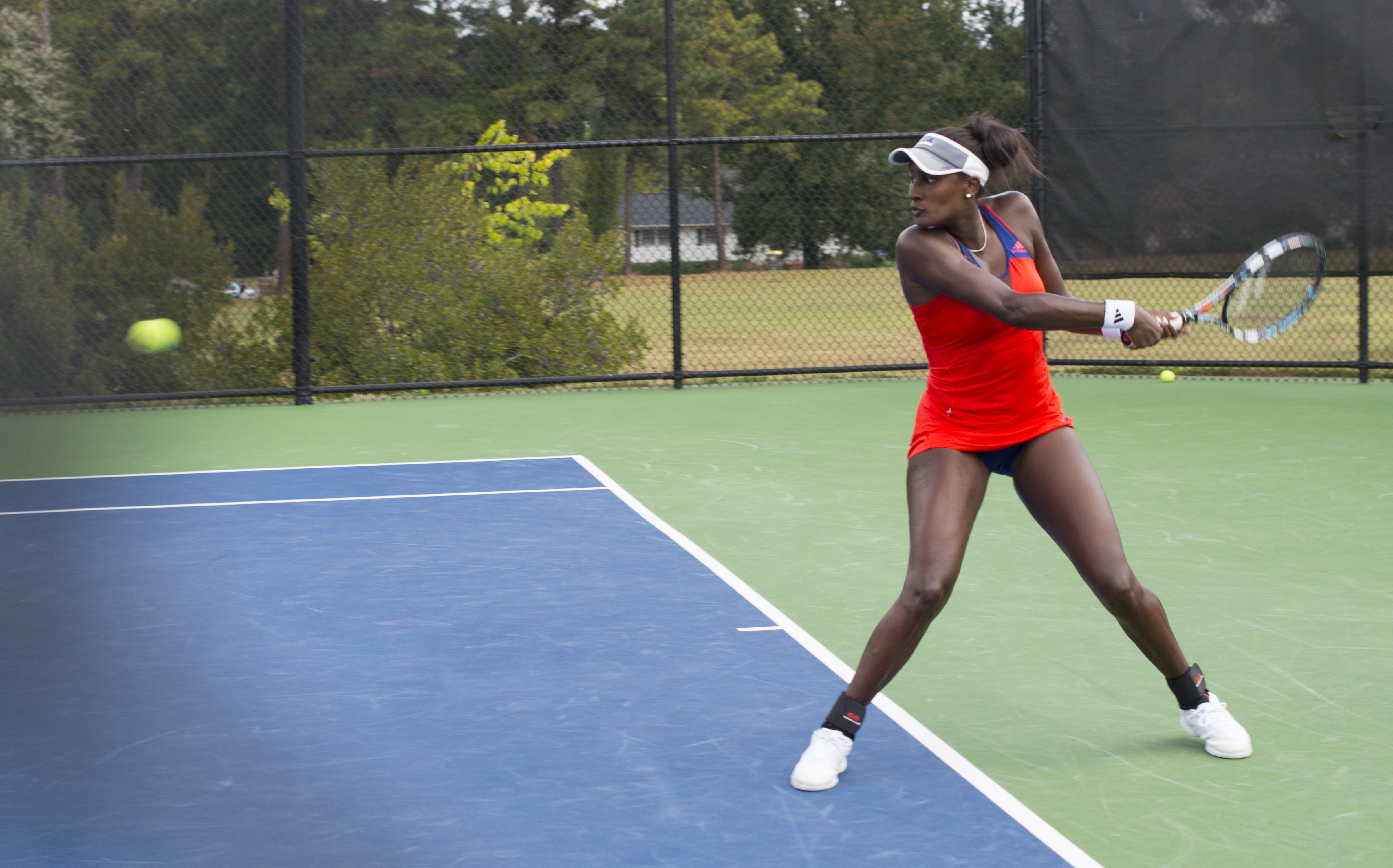 Playing at the $25K event in Rock Hill, USA